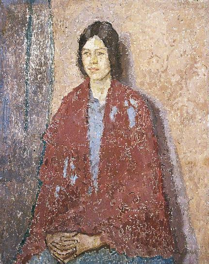 Gwen John, "Young Woman in a Red Shawl"